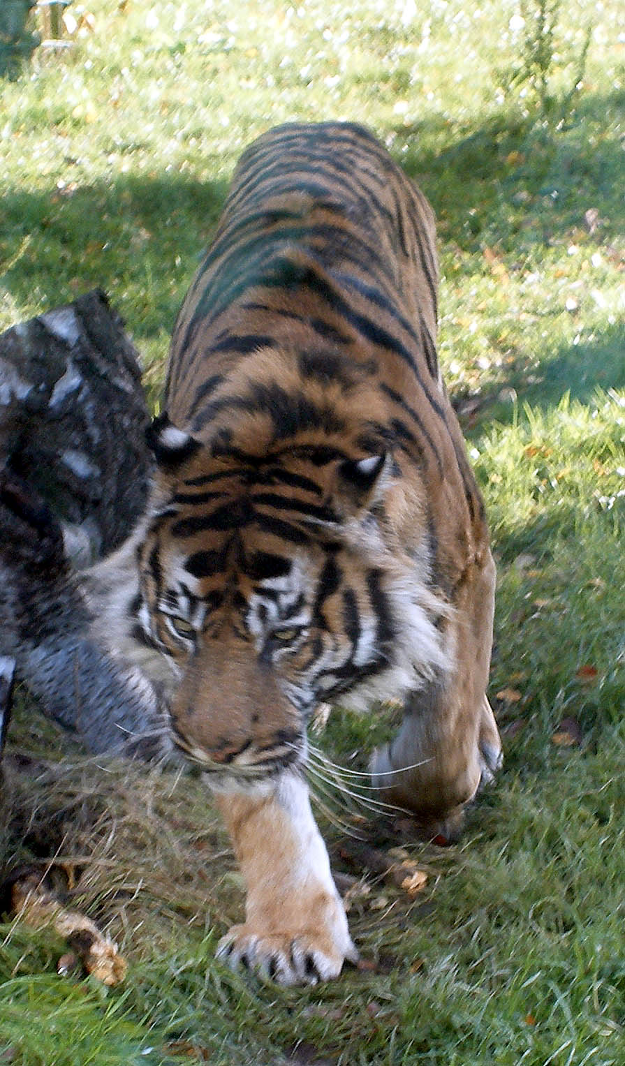 An Amur Tiger in Dublin Zoo, taken by Rory Parle in November 2006.